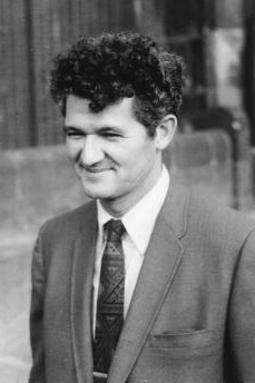 Peter Lax in Tokyo